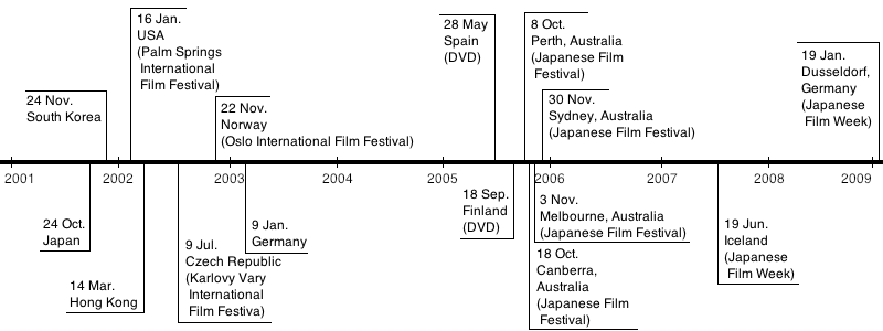 A timeline of the release dates of the 2001 Japanese film Go across different countries.